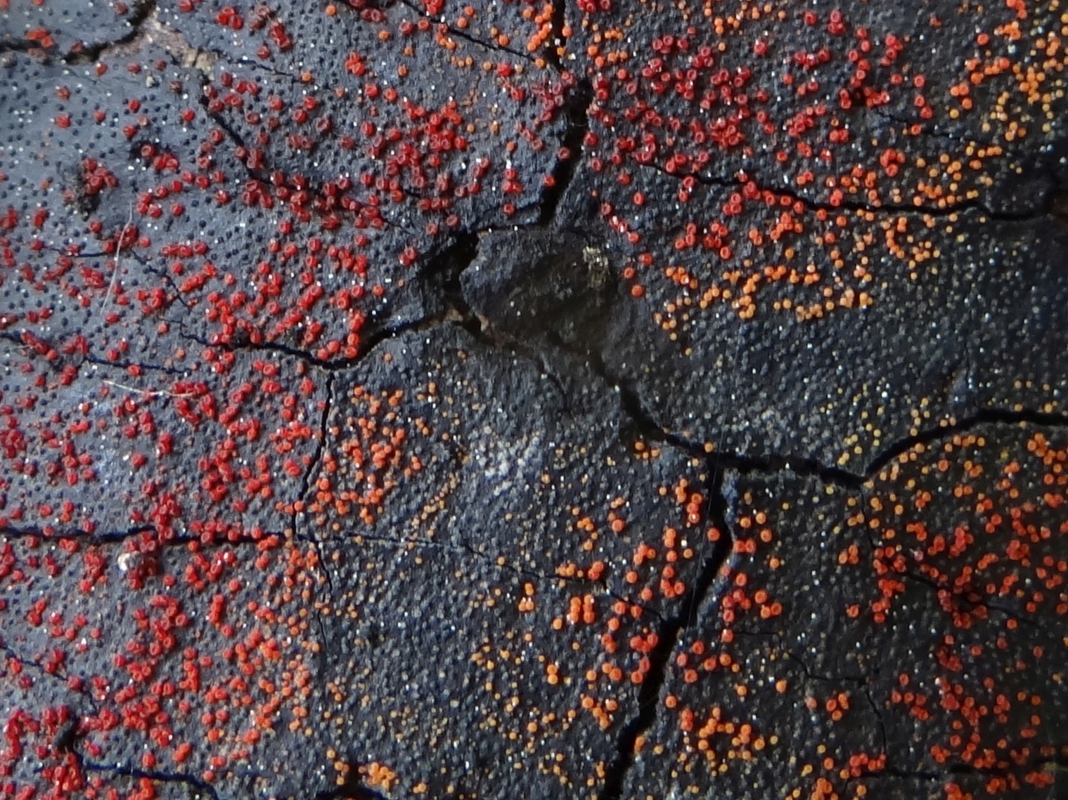 Neonectria coccinea on Fagus sylvatica. Location: Poland, Nowe Rybie